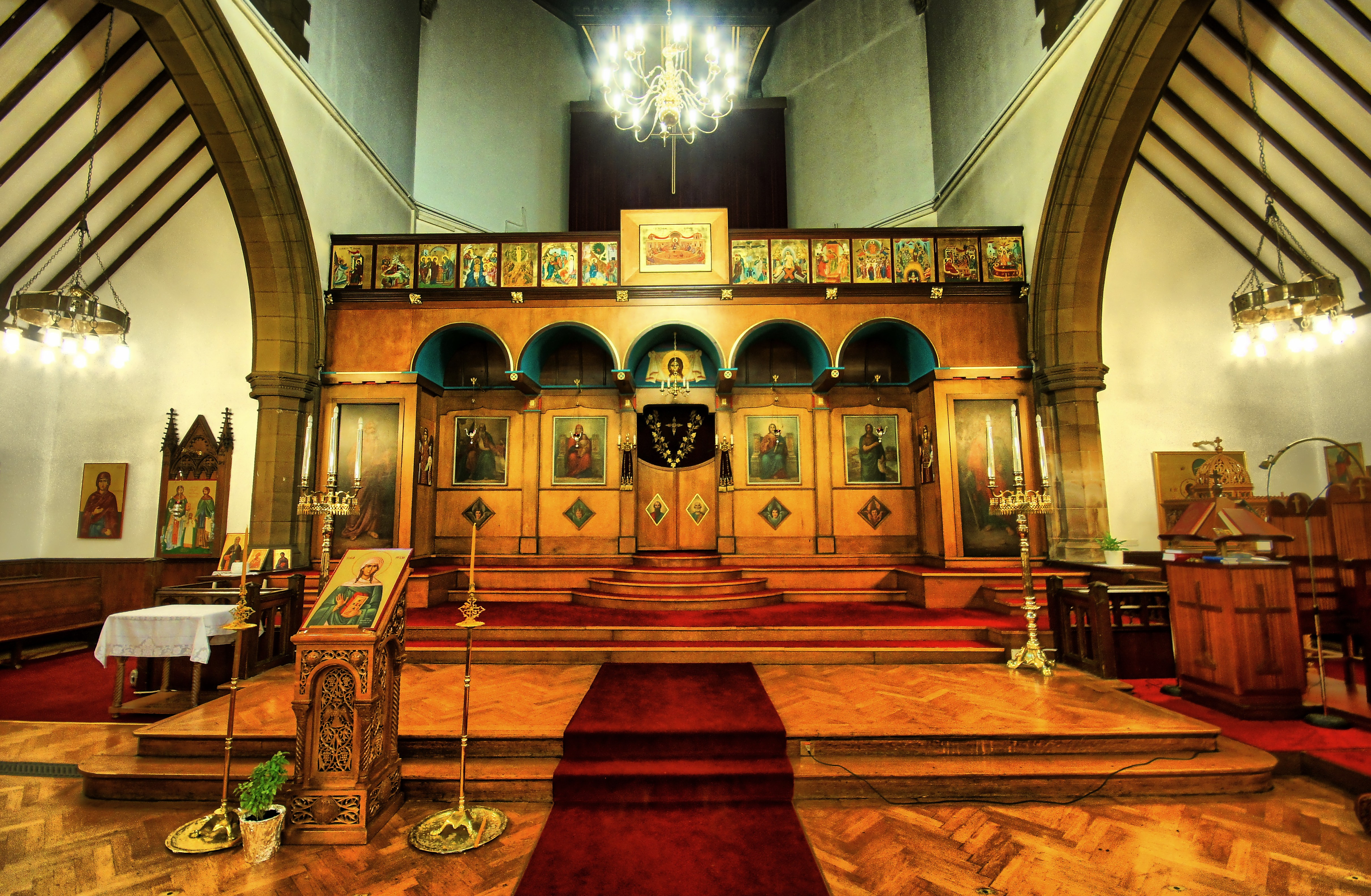 The Templon of the Greek Orthodox Cathedral of St Luke, Glasgow. 55°52′45″N 4°17′56″W